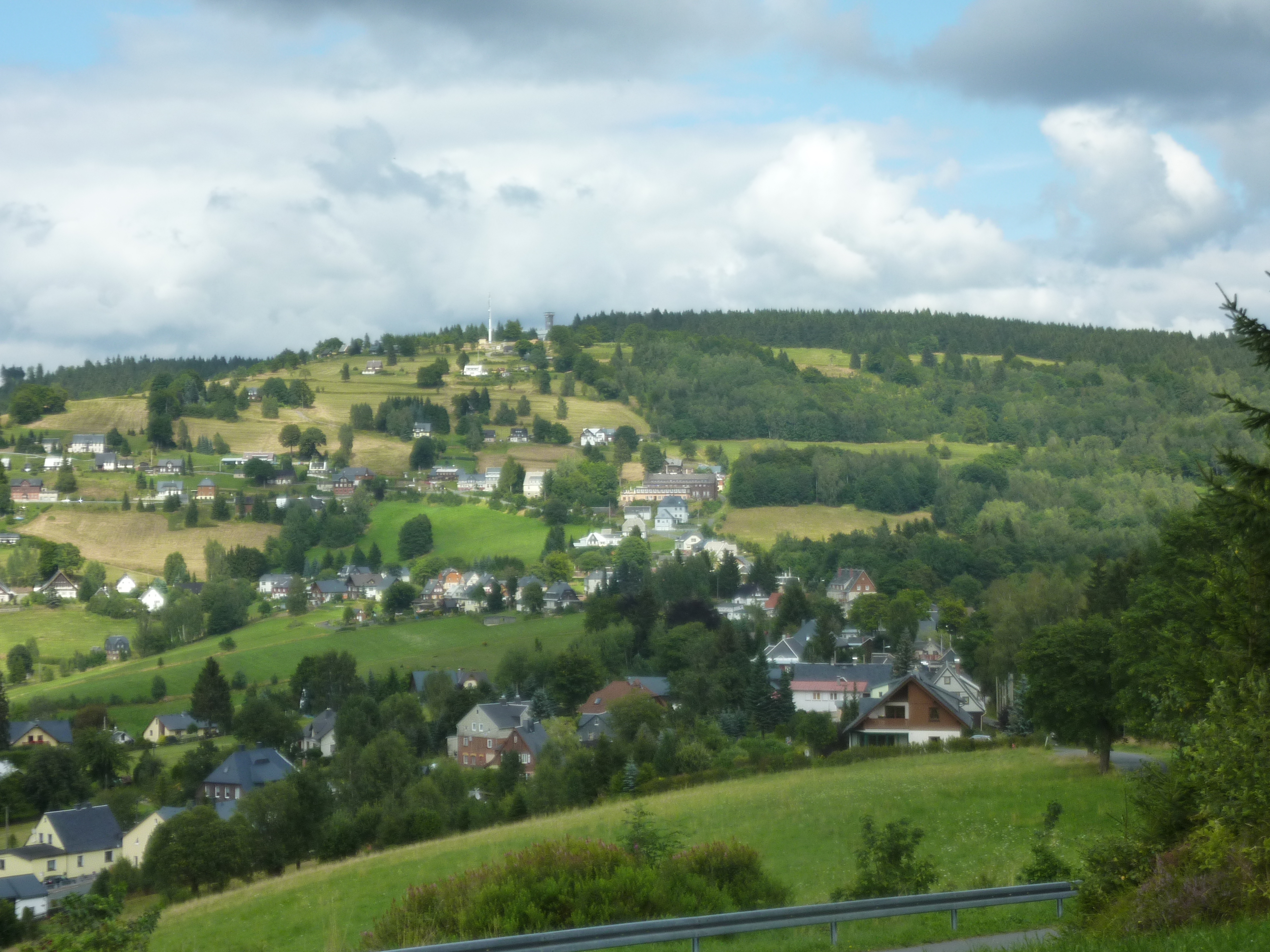 Aschberg (Klingenthal)/Bublava, German-Czech border